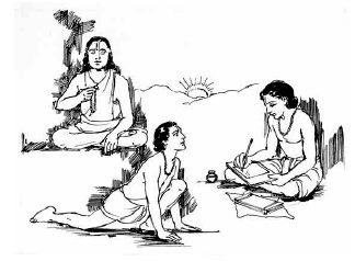 Ramdas tap